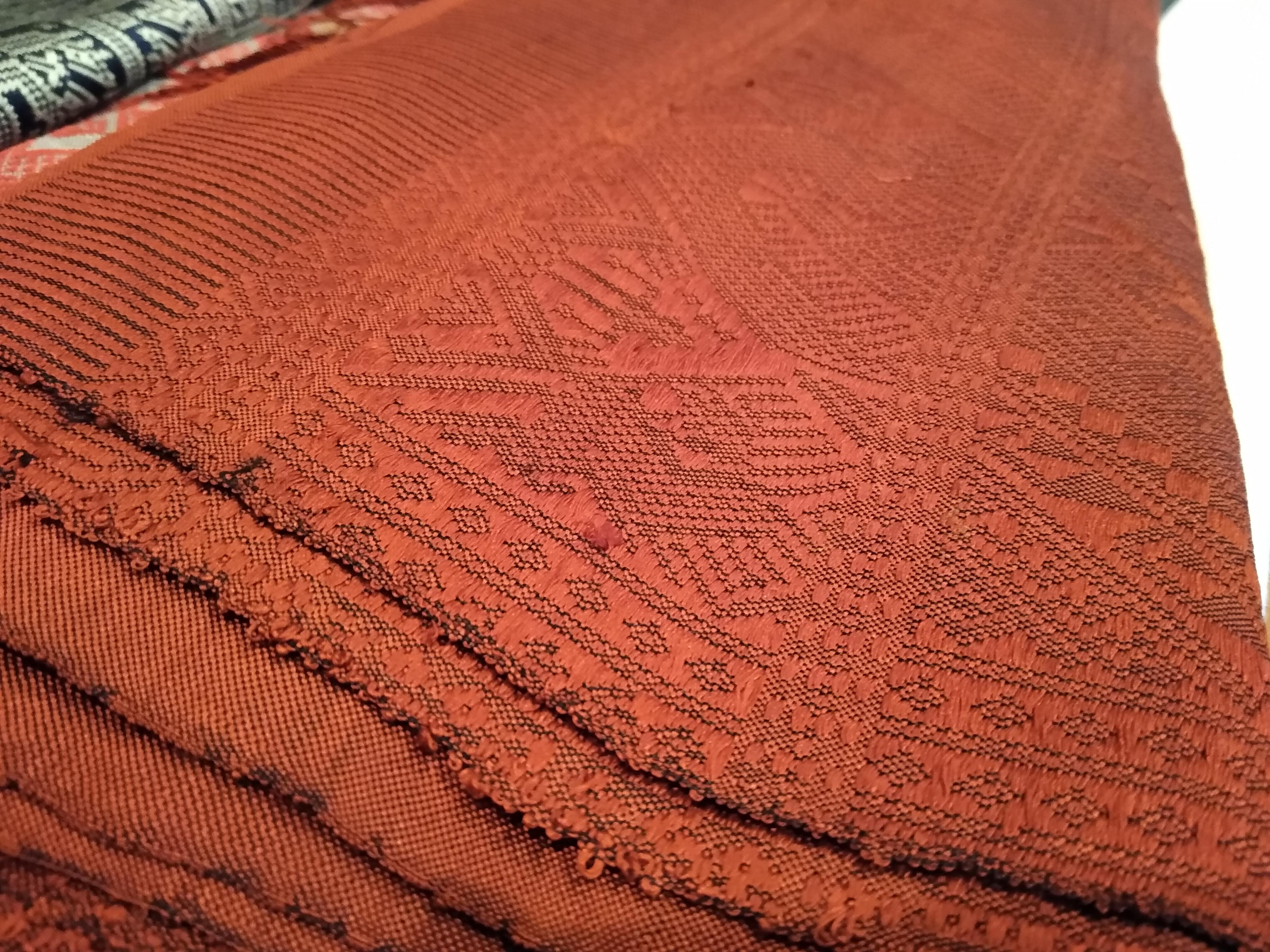 A silk pha biang for sale at the Lao Textile Museum in Vientiane. Label: Pha Biang Kit Lai Nark Tai Kuea Silk/Hand Woven Made in Laos US$500